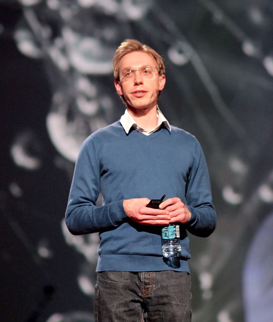 Daniel Tammet (born Daniel Paul Corney[1] on 31 January 1979) is a British writer with high-functioning autism and savant syndrome.